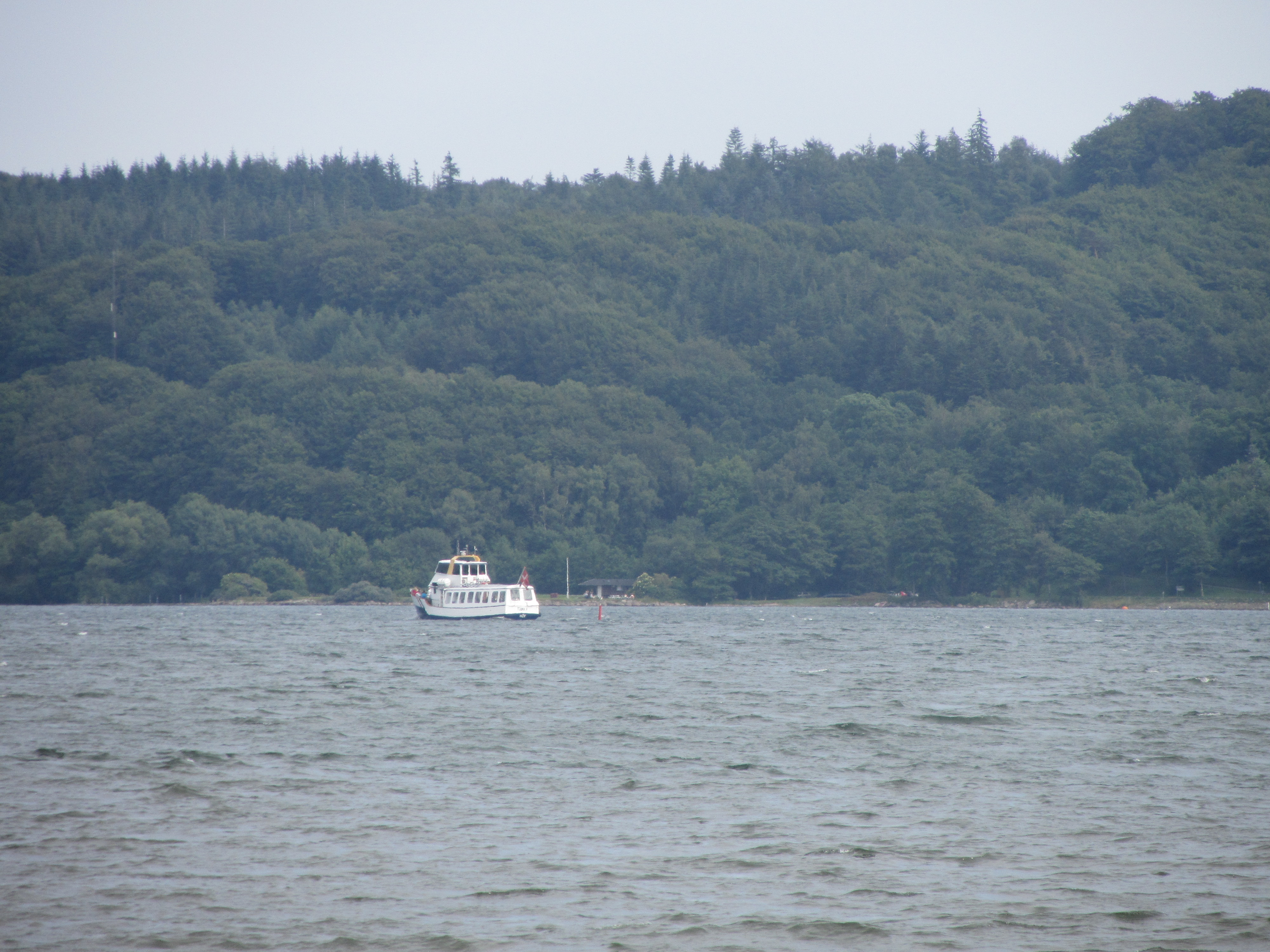 Tourist Ship on Vejle Fjord, Denmark